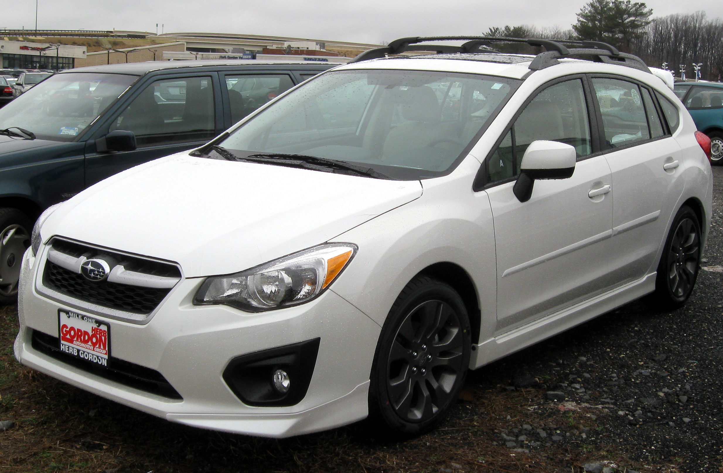 2012 Subaru Impreza photographed in Silver Spring, Maryland, USA.